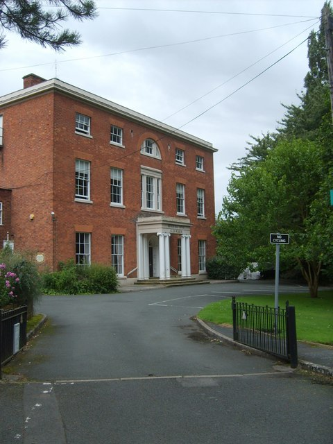 Broadfield House The Glass Museum stands on Compton Drive.